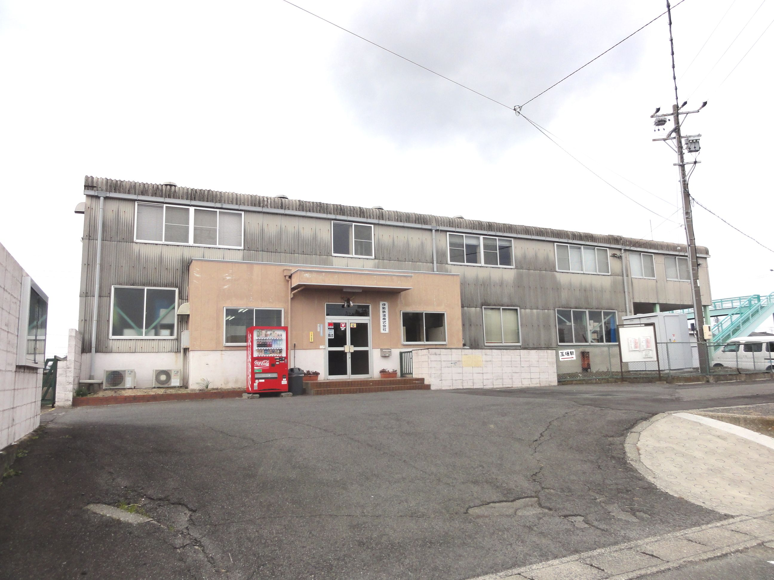 Ise Railway headquarters at Tamagaki Station